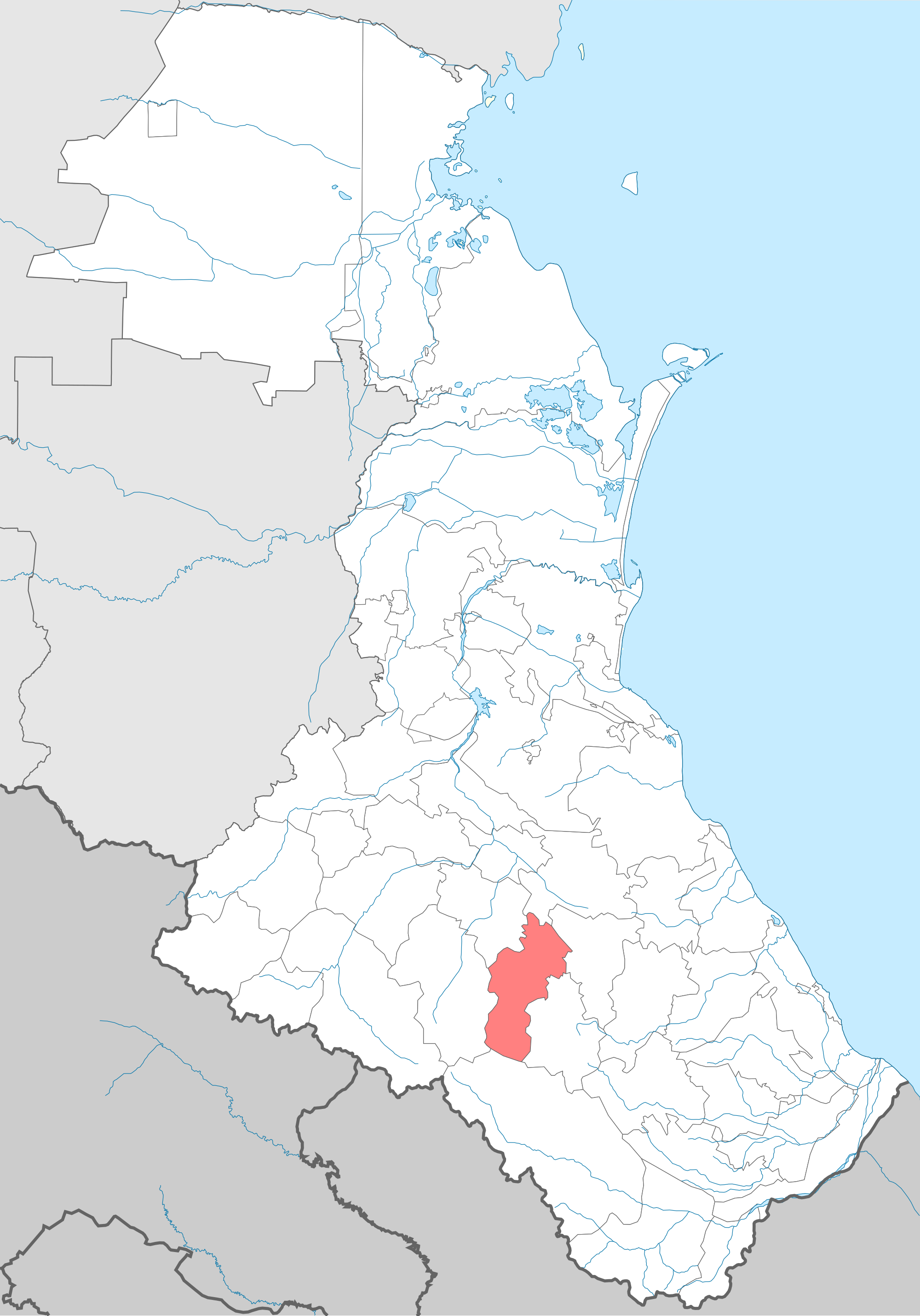 Laksky district. Locator Map of Dagestan (Russia)